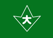 Flag of Okuwa Nagano